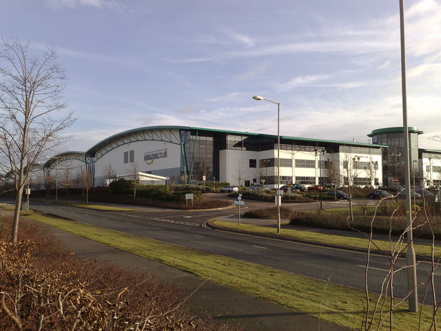 Amazon warehouse Storage and distribution point for on-line purchases. Located near the M1 at Ridgmont.